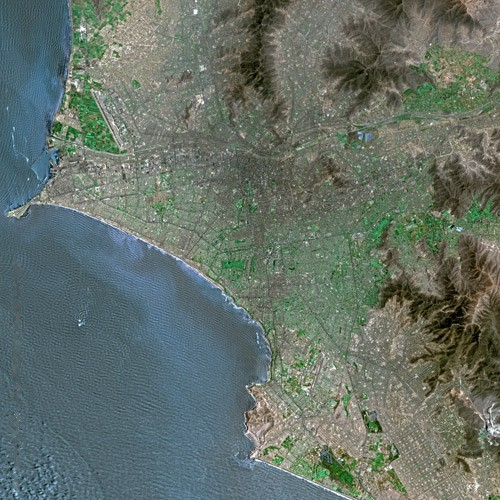 Lima by SPOT Satellite